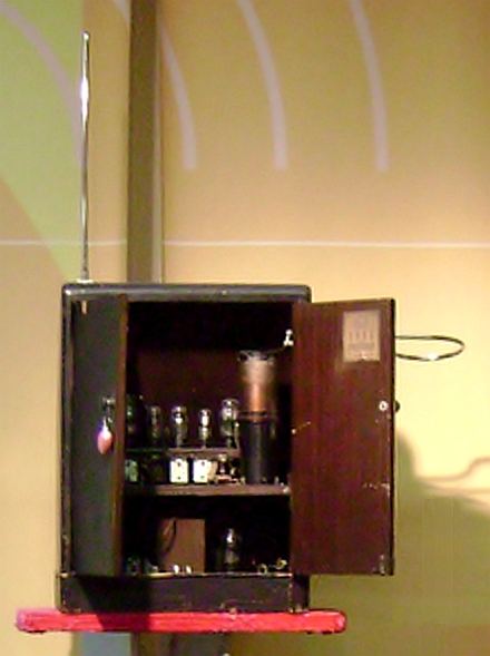 RCA Theremin internals (1929) [1] (checked with Collection Checklist) Cantos Keyboard and synthesizer museum. Calgary AB. February 11, 2010.